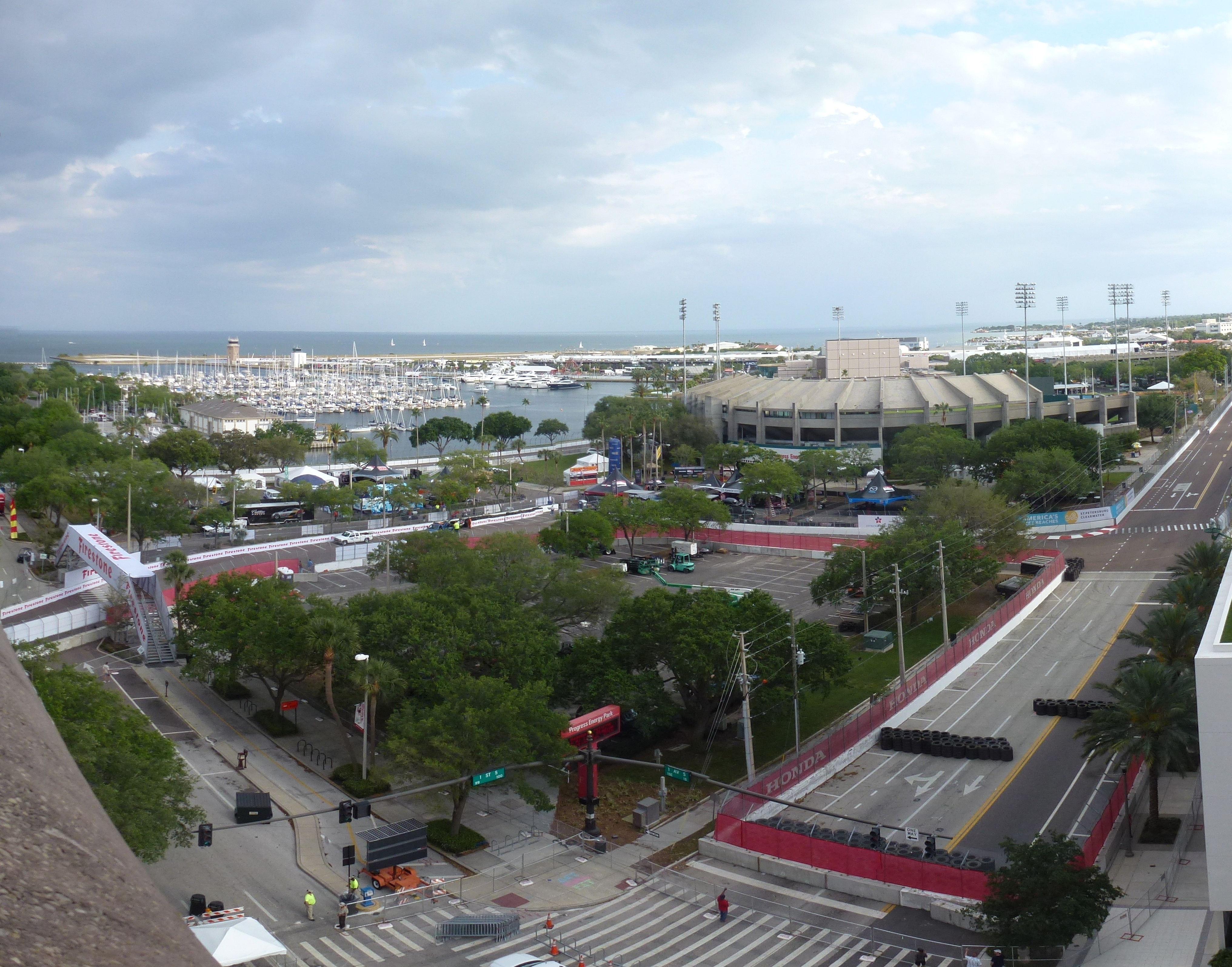 The section of the 2012 Honda Grand Prix of St. Petersburg that curves through the Progress Energy Park (baseball stadium, visible in center) parking lot. The race proceeds from the top right towards the center left, with a runoff area in the lower right.